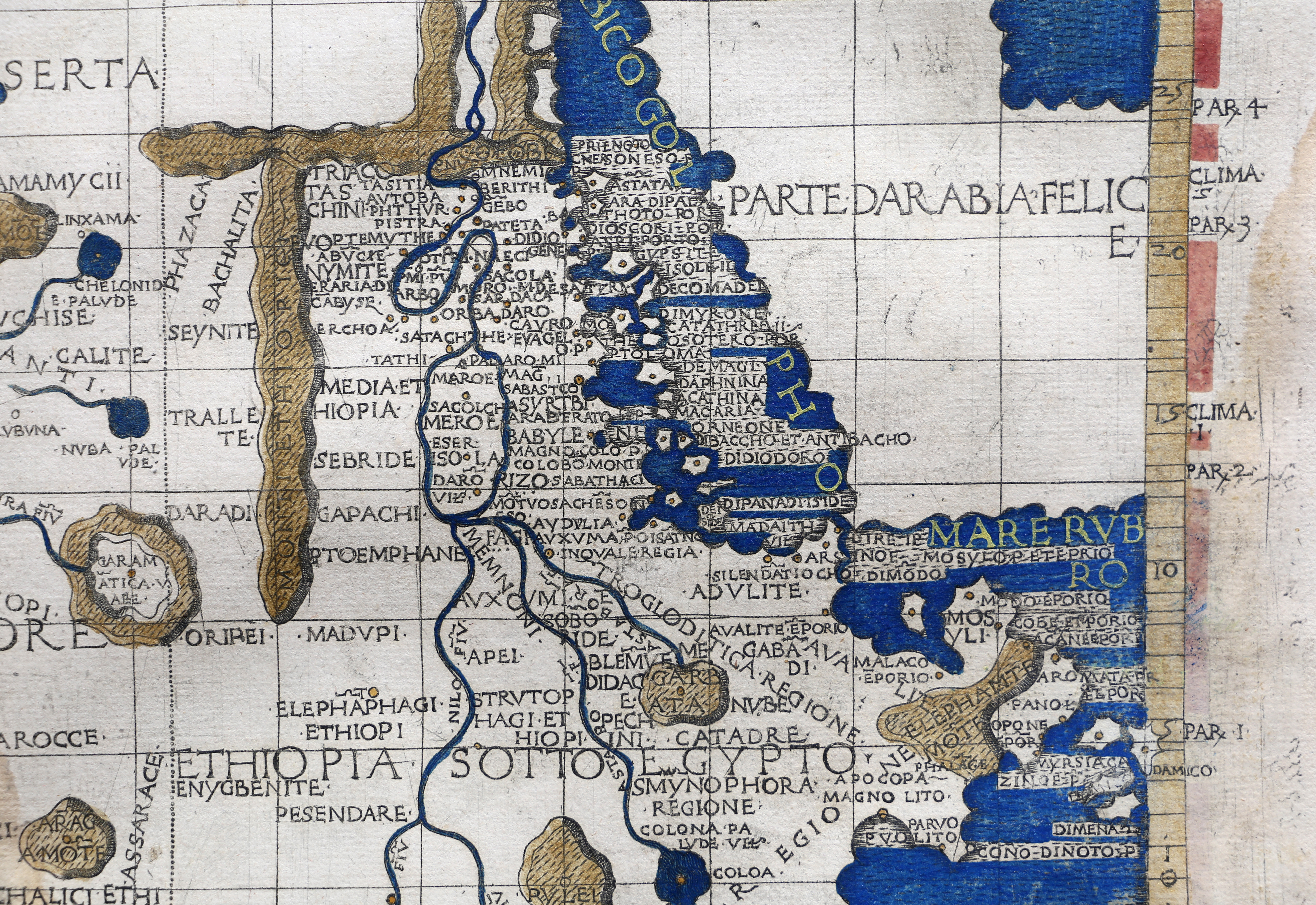 Geographia by Francesco Berlinghieri (Crusca)